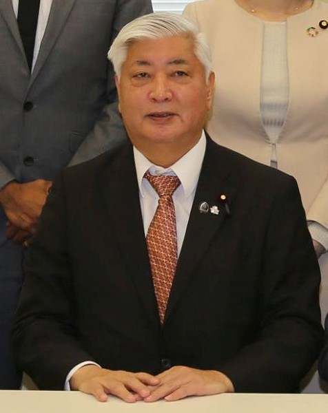 Tokyo, March 27, 2019 – Minister for Foreign Affairs and Cooperation (MoFAC), H.E. Mr. Dionísio Babo Soares, accompanied by Director General for Bilateral Affairs-MoFAC, Mr. Isílio Coelho, Timorese Ambassador in Japan, Mr. Filomeno Aleixo da Cruz, pay a courtesy visit to the President Member of Parliament Diet and Japanese Parliament working Group for Timor-Leste, Mr. Gen Nakatani. The purpose of the meeting is to discuss Japanese support to Timor-Leste through the cooperation in some important areas to Timor-Leste. Mr. Nakatani welcome the intention of the government of Timor-Leste of sending Timorese workers to work in Japan and requests the cooperation of the government of the two countries in implementing the program. Venue: meeting room of Japan National Parliament House, Tokyo-Japan